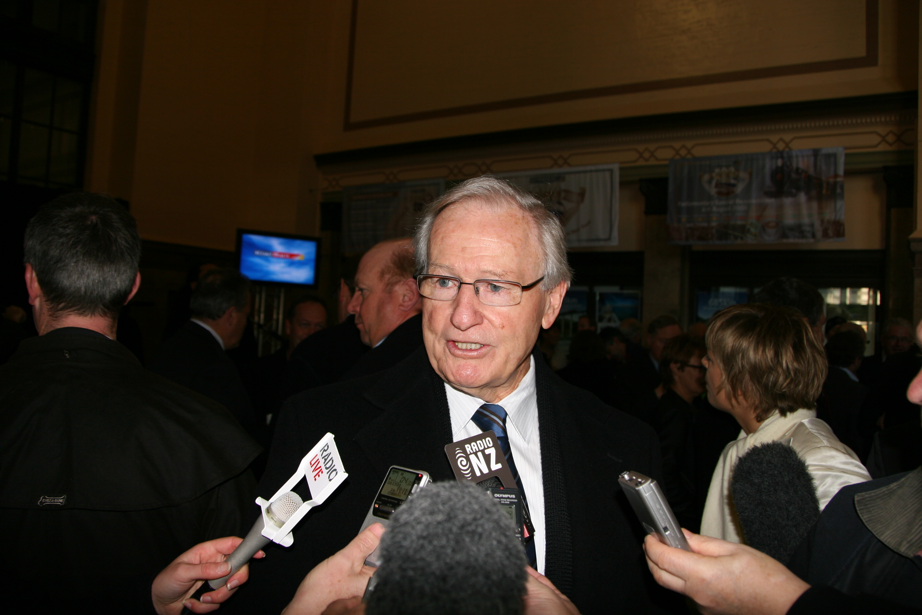 Former Prime Minister Jim Bolger mid press conference at the release of Kiwirail, where the crown is paying over $600 million to Toll Holdings to buy back all the tracks, assets and debts.